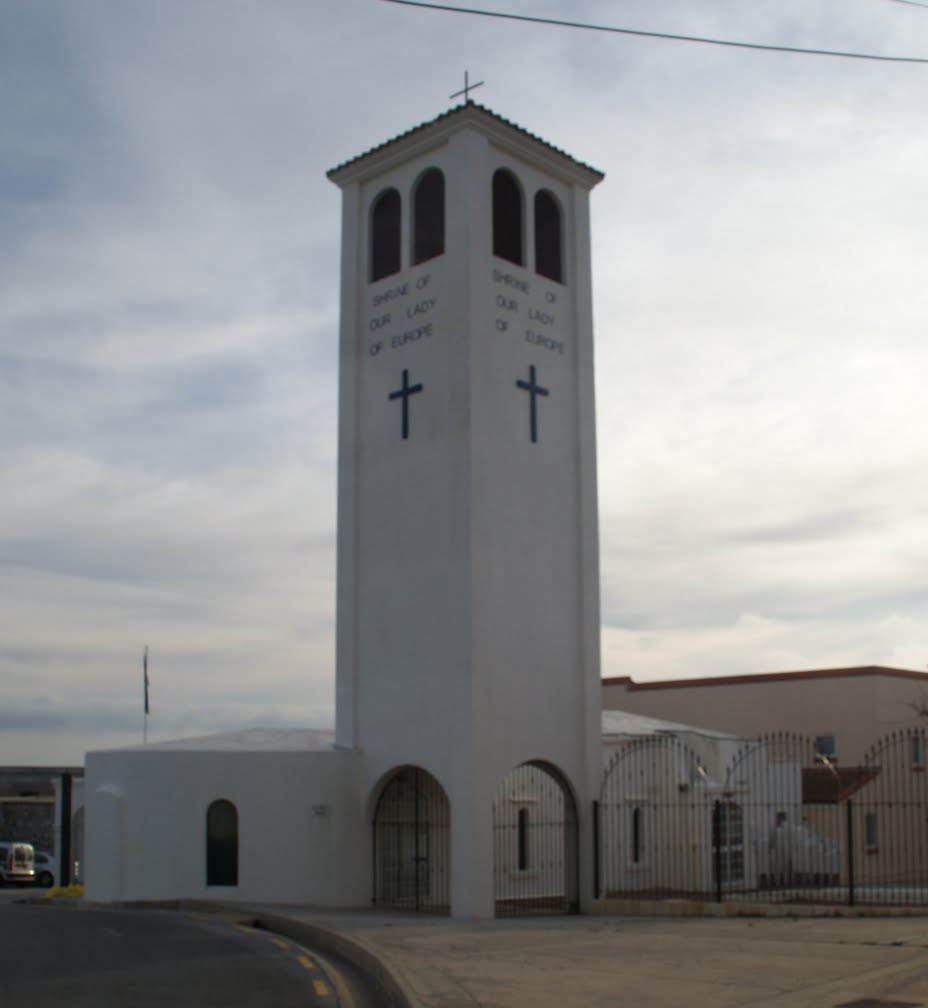 Shrine of Our Lady of Europe, Gibraltar